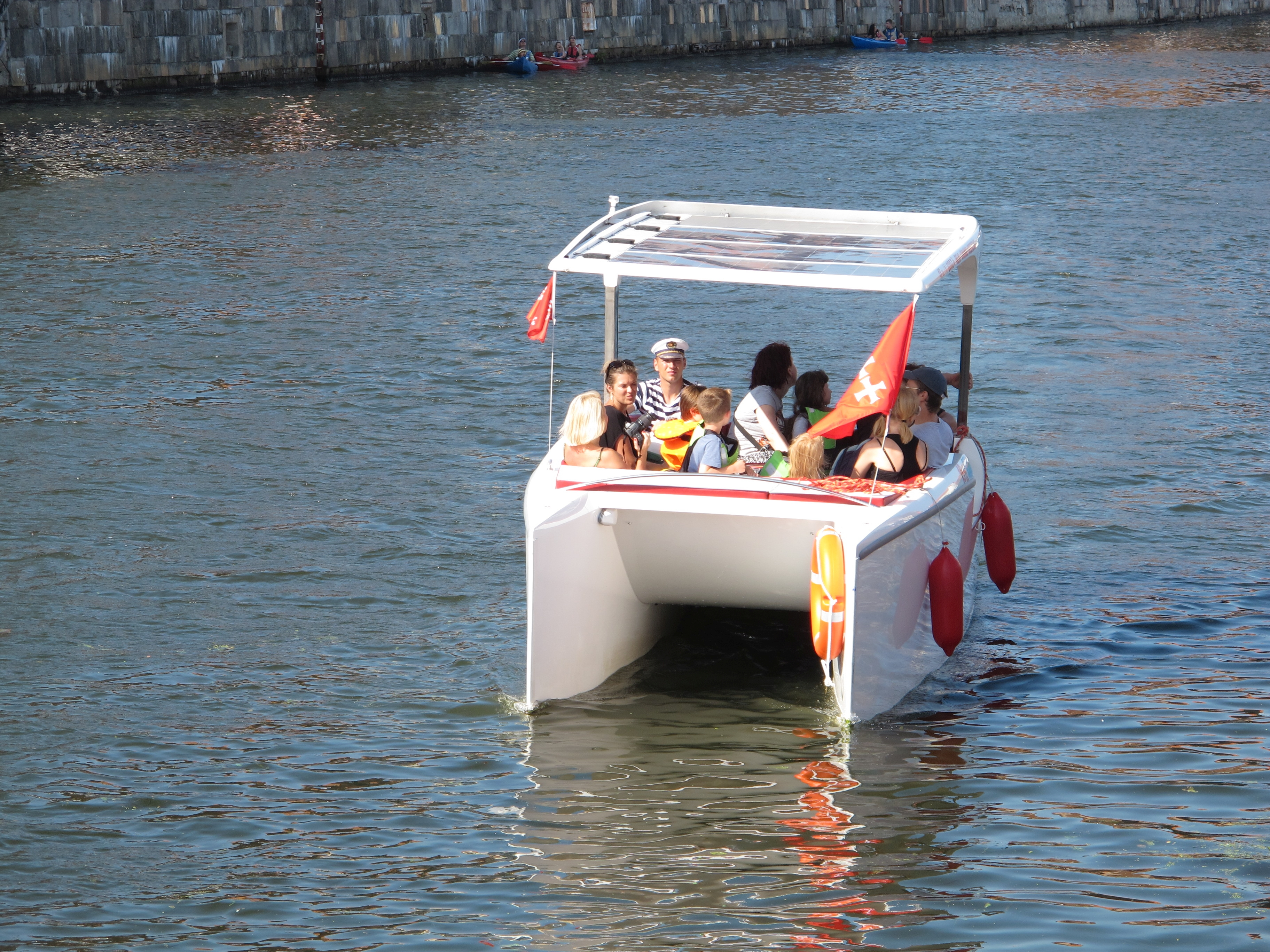 Gdańsk - Tesla-21 solar-powered datamaran on the Motława